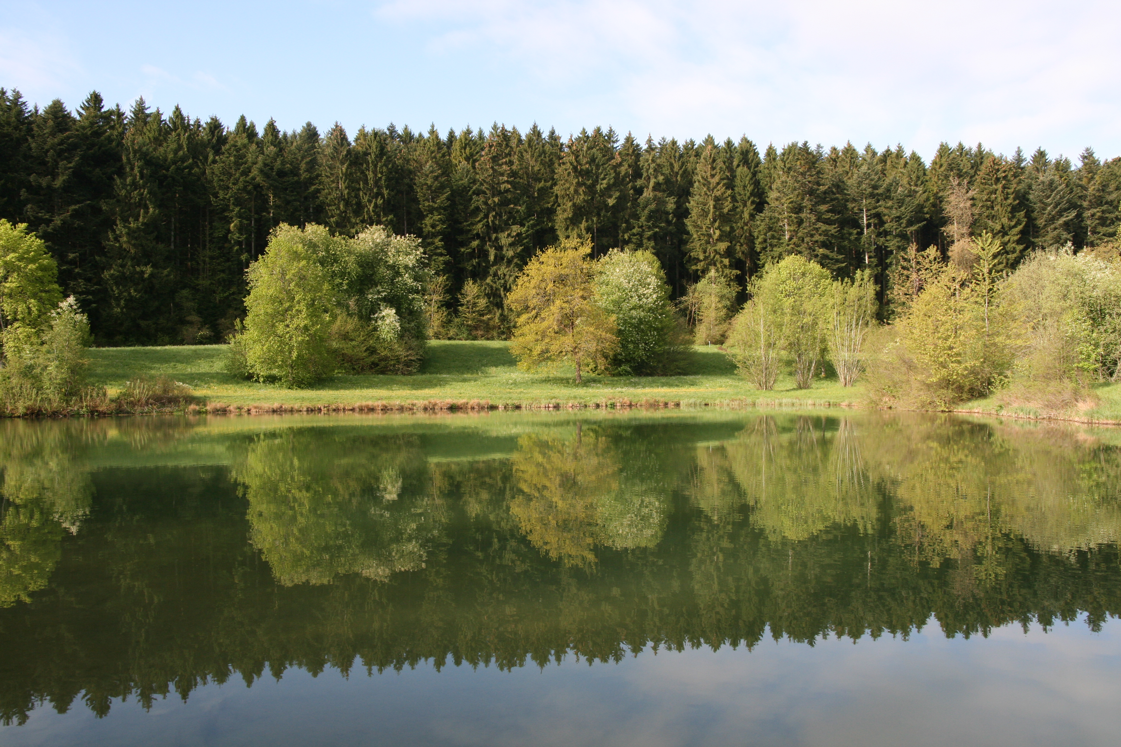 Water reflections of trees — at Lake of Tumlingen, Waldachtal, Germany